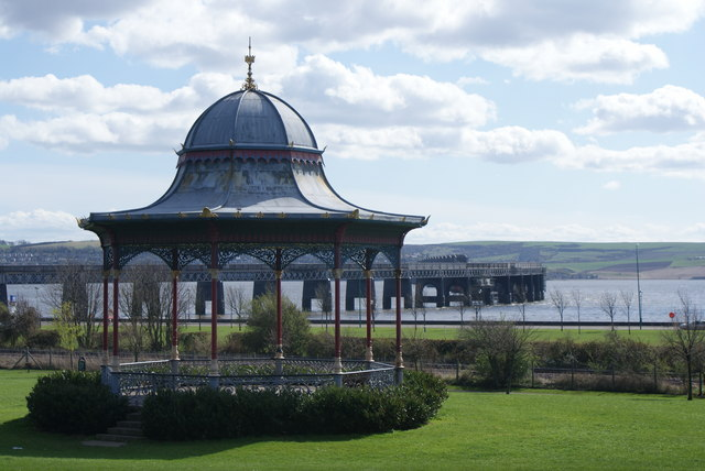 Magdalen Green Bandstand This bandstand sits in Magdalen Green, a public park in Dundee. The Tay rail bridge behind.